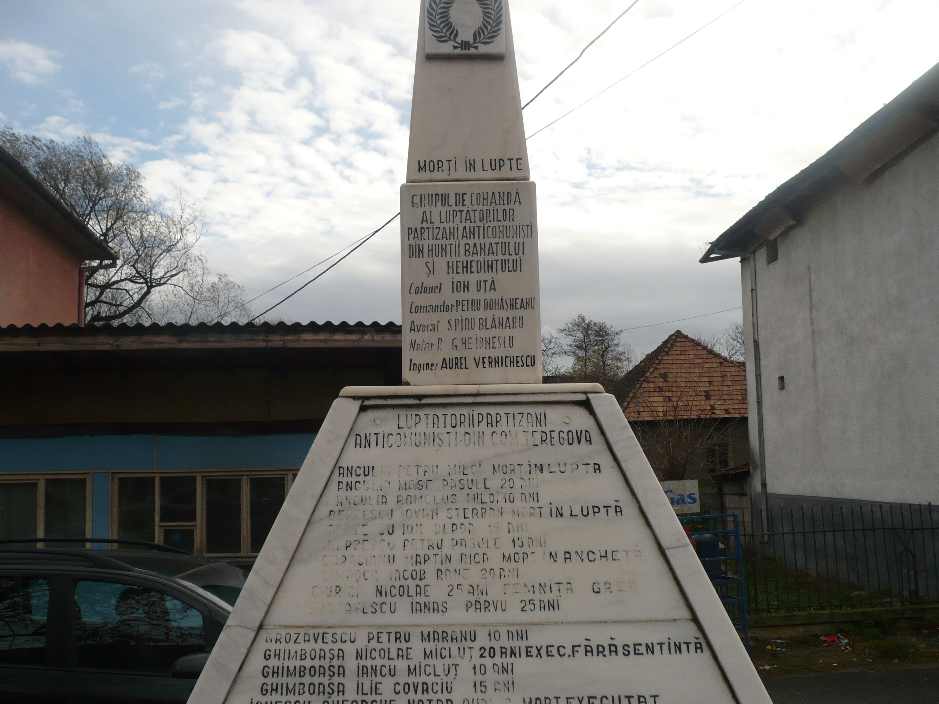 Memorial in Teregova, Romania, commemorating Romanian anticommunist partisans in Banat Mountains and Mehedinţi Mountains